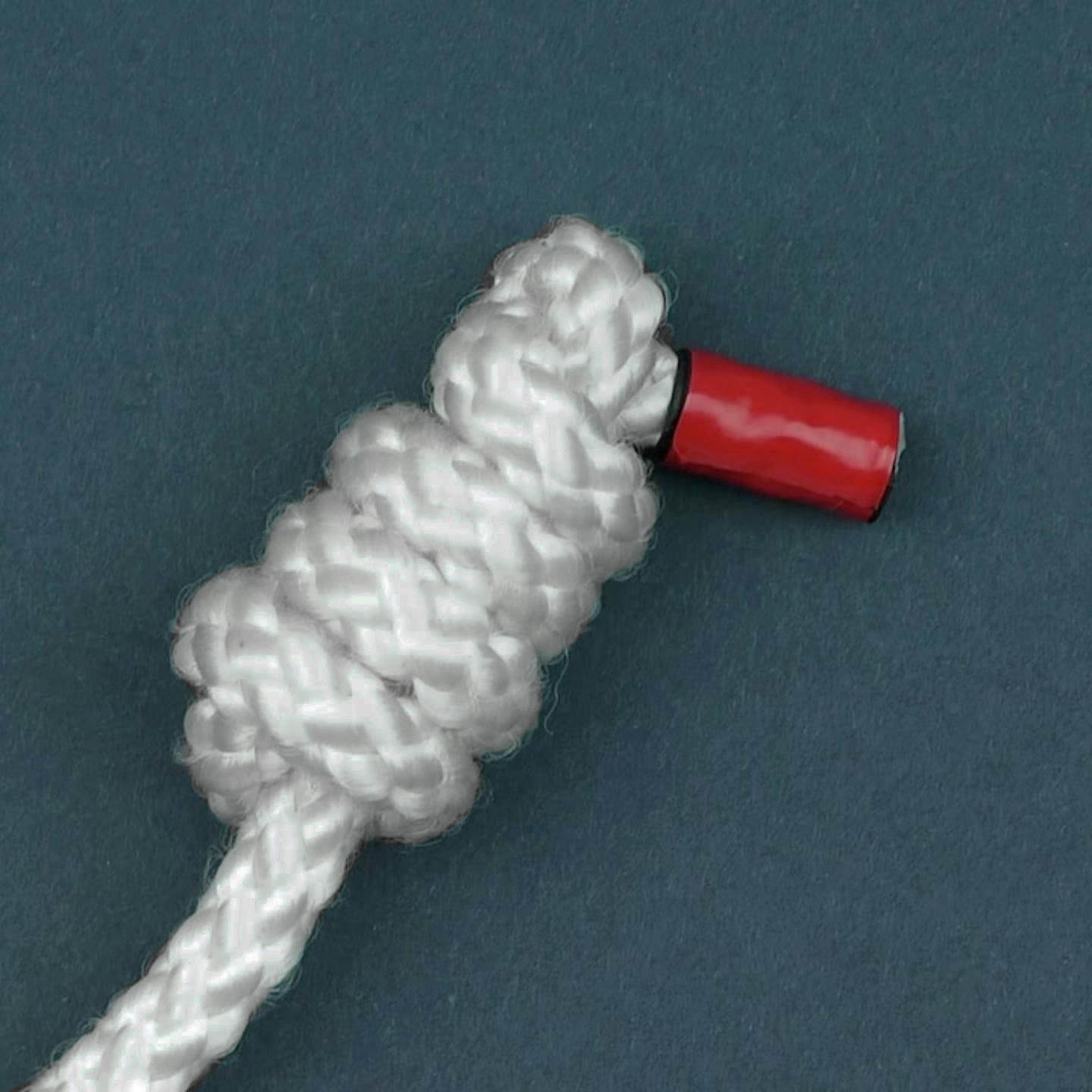 A heaving line knot